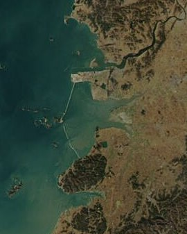 Saemangeum, Jeollabuk-do, South Korea in January 2004 showing incomplete dam. Filling in the estuary began in 1991. Dammed in April 2006.